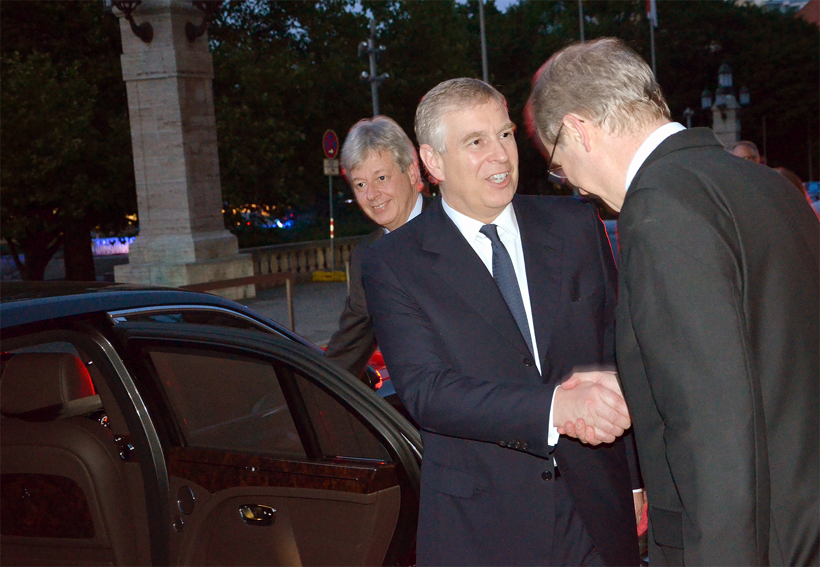 Prince Andrew, Duke of York visited the New Town Hall in Hanover, where he met Lord Mayor Stefan Schostok ...